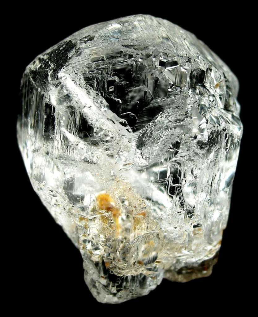 Phenakite Locality: Jos Plateau, Plateau State, Nigeria (Locality at ) Size: 3.7 x 3.1 x 2.5 cm. At 39 grams, this is one of the larger specimens recovered. It is a floater, complete-all-around and pristine save one small ding on a bottom face (hard to see). It was the best overall specimen in the small lot of this material which showed up in Thailand at the cutting factories, in August of 2009 (several kilograms in total, representing about half the find). Bill Larson, a gem and mineral dealer, who was there at the time on gem business and was shown the material, immediately realized their specimen value and was able to save half a dozen good pieces from the cutters. This crystal has a very 3-dimensional structure to it, and is better crystallized than any other here. It has real faces, and a very unusual rounded termination more like that of a heliodor (but with garnet surface patterning), than of any phenakite I have ever seen. It is a bizarre specimen that is really quite unique from other gem crystals in its overall form and aspect. It looks for all-the-world like a completely colorless spessartine garnet at first glance, with those complex striations and patterning prominent around the whole specimen. In person, this glows with brilliant light bouncing in and out of the crystal off all the myriad facets of the faces. It is absolutely colorless, a pure colorlessness that is startling in its utter lack of any impurity which adds some coloration to most minerals.